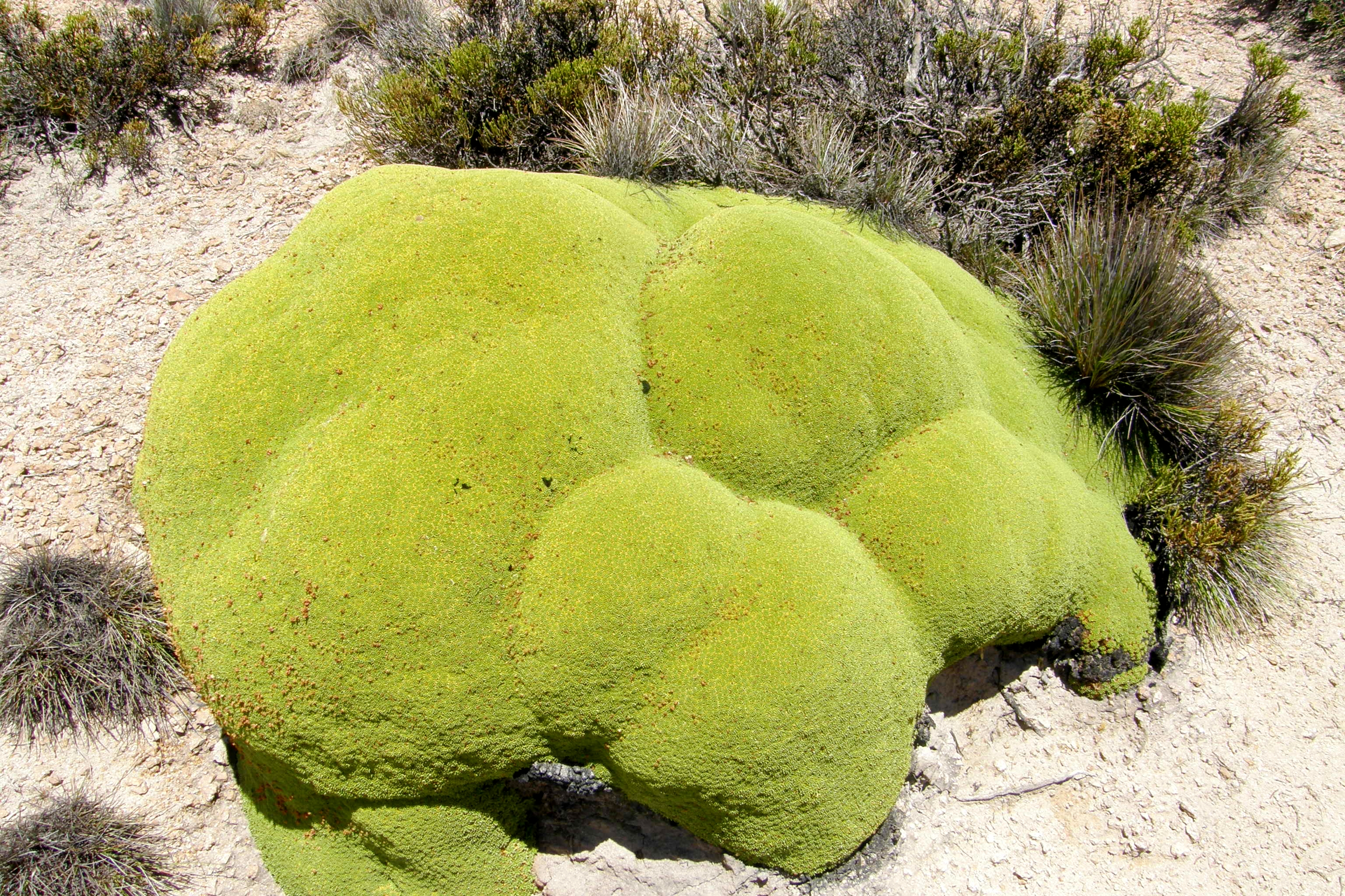 Yareta (Azorella compacta Phil.) in the national park Lauca, municipality of Putre, region XIII, Chile.